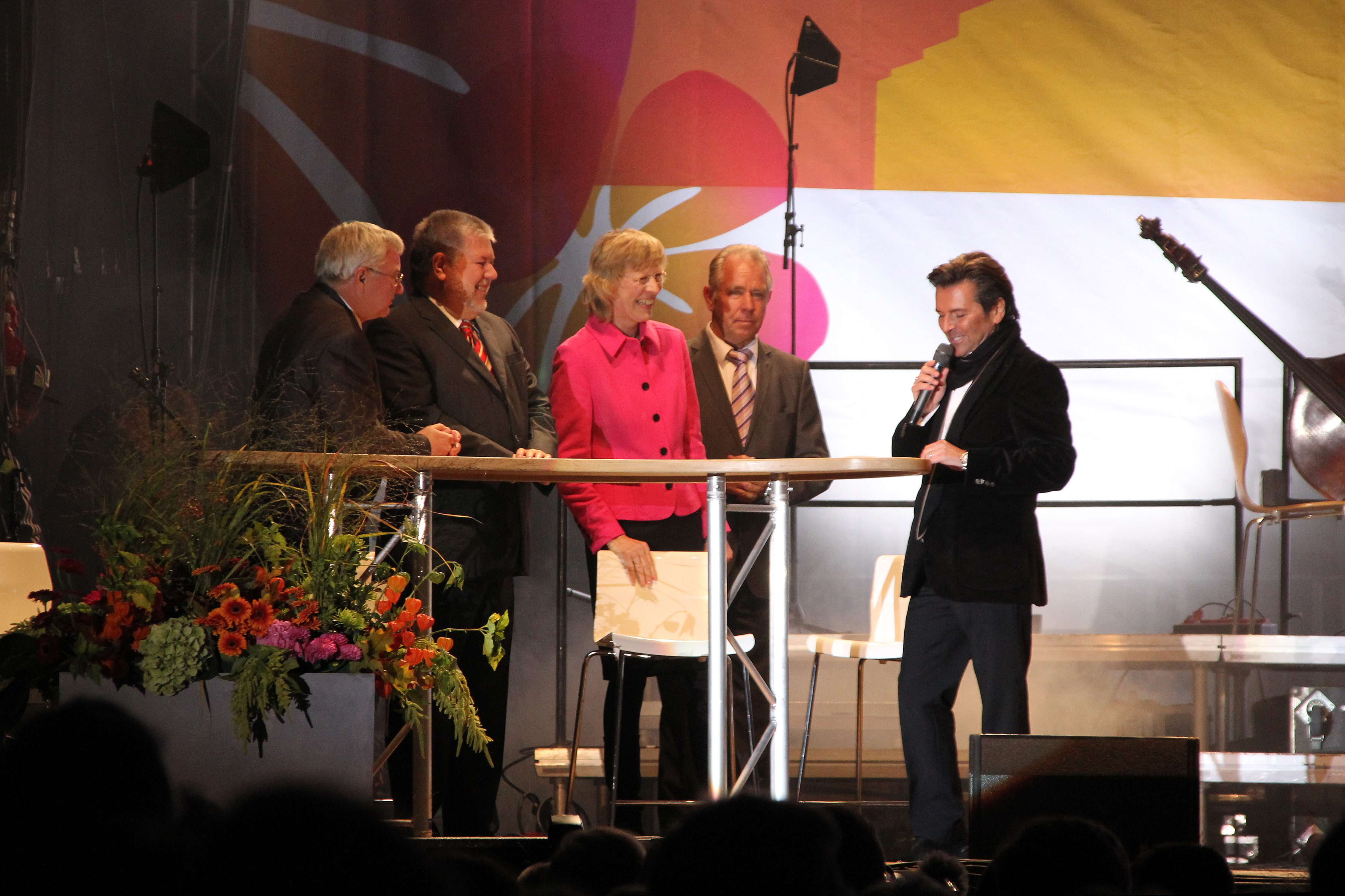 Federal Horticultural Show 2011 in Koblenz